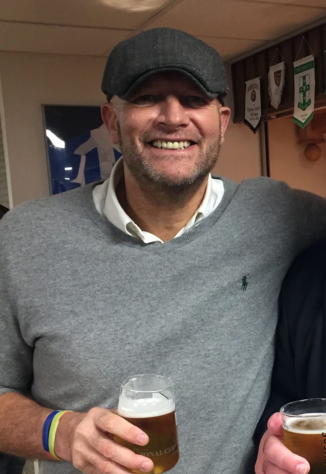 Peter Cawley at Wallace Binder Ground, Maldon, England after watching Maldon & Tiptree's 3–0 win against Walton Casuals in the FA Trophy First Qualifying Round on Saturday 28 October 2017